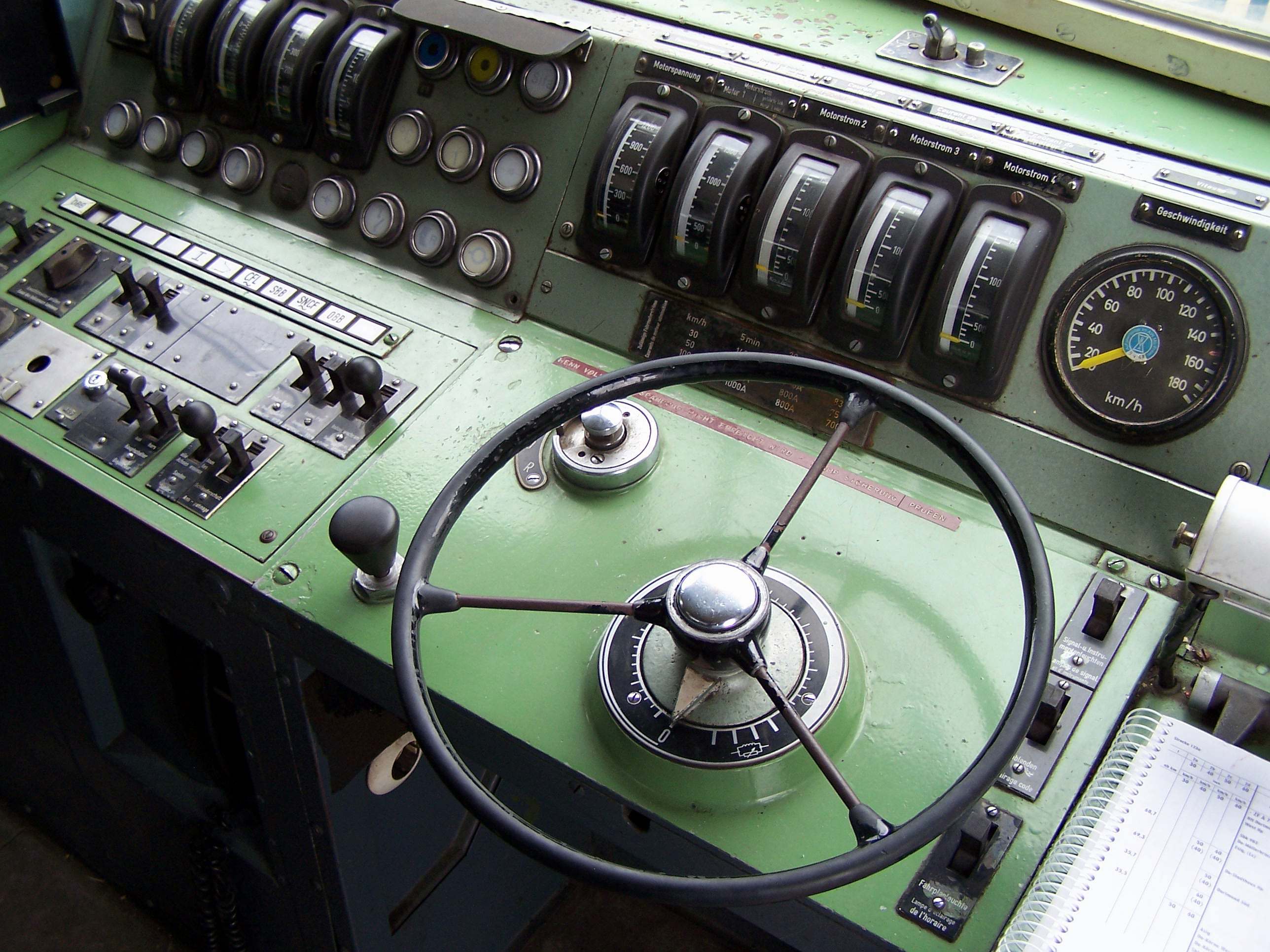 Throttle of historical DB electrical locomotive 181 001 at the open-air exhibition ground of the DB Museum in Koblenz-Luetzel, a local branch of the Transport Museum in Nuremberg